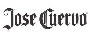 Logo of the Jose Cuervo tequila liquor brand — based in the Municipality of Tequila, Jalisco state, México.